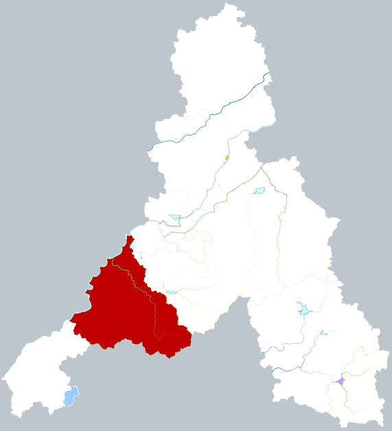 Location of Changqing district in Jinan City, China